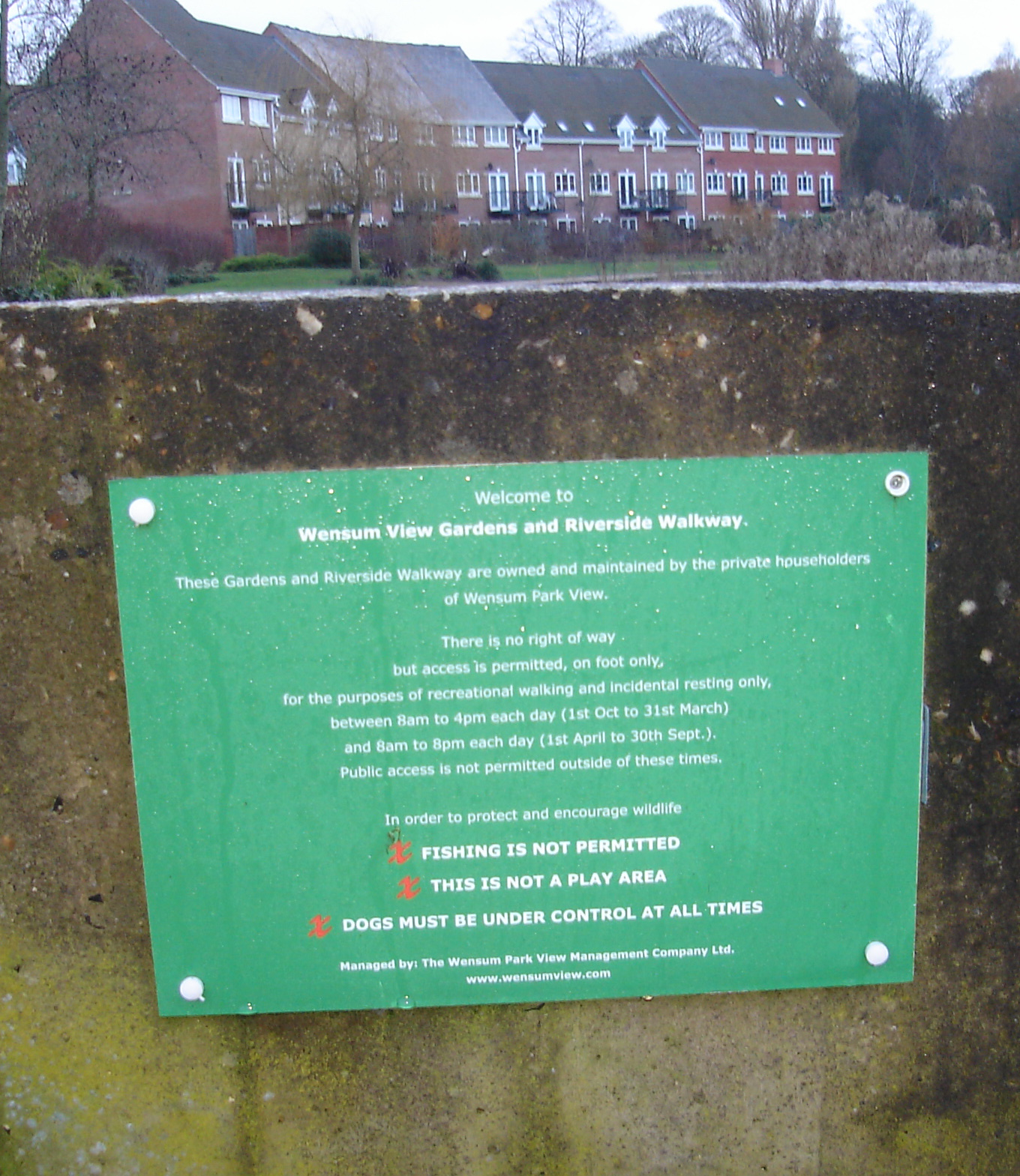 Information board close to the River Wensum in Norwich. The houses in the background date from the late 20th and were built on the site of a former shoe factory